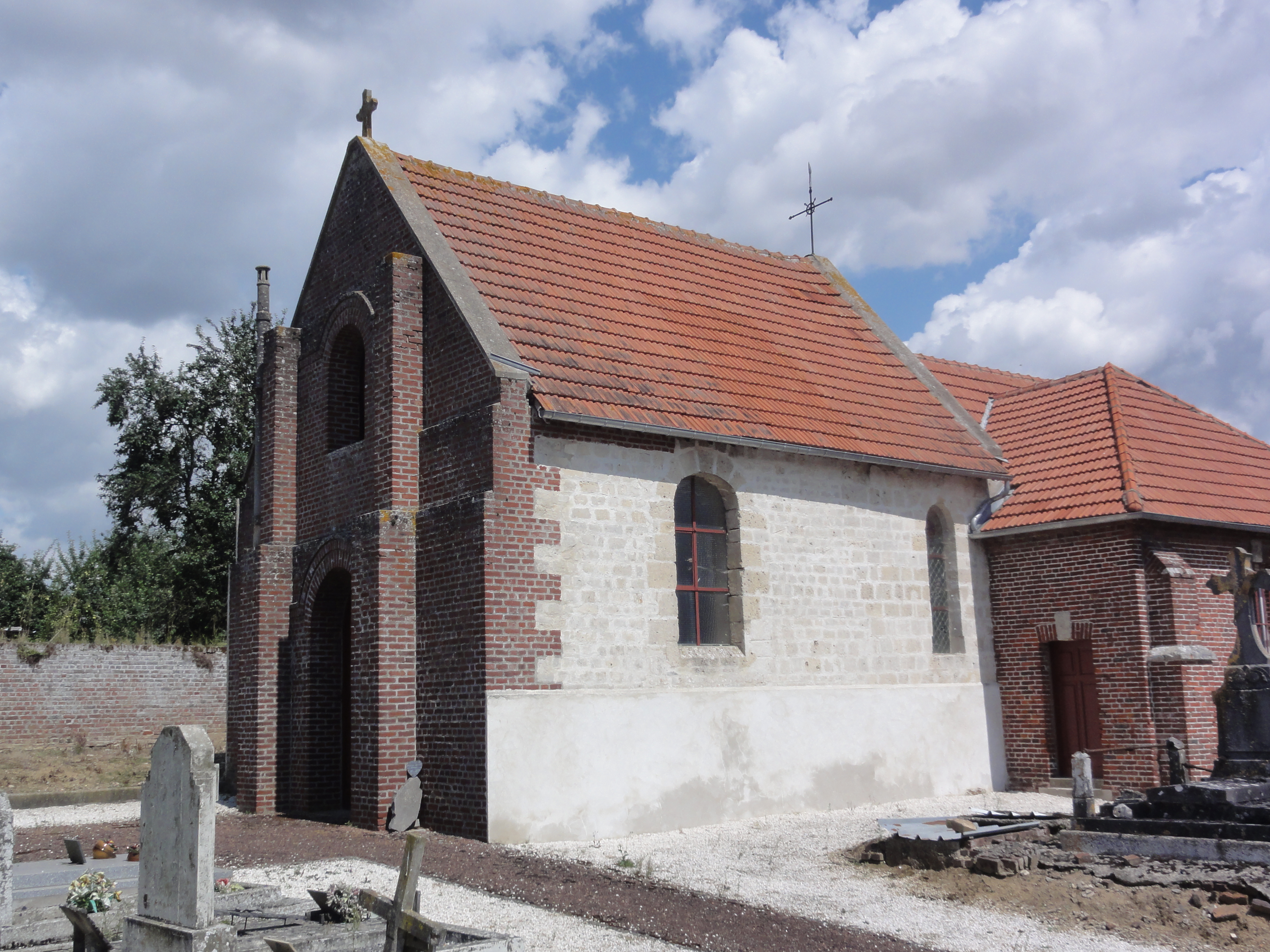 Neuflieux (Aisne) église Saint-Martin